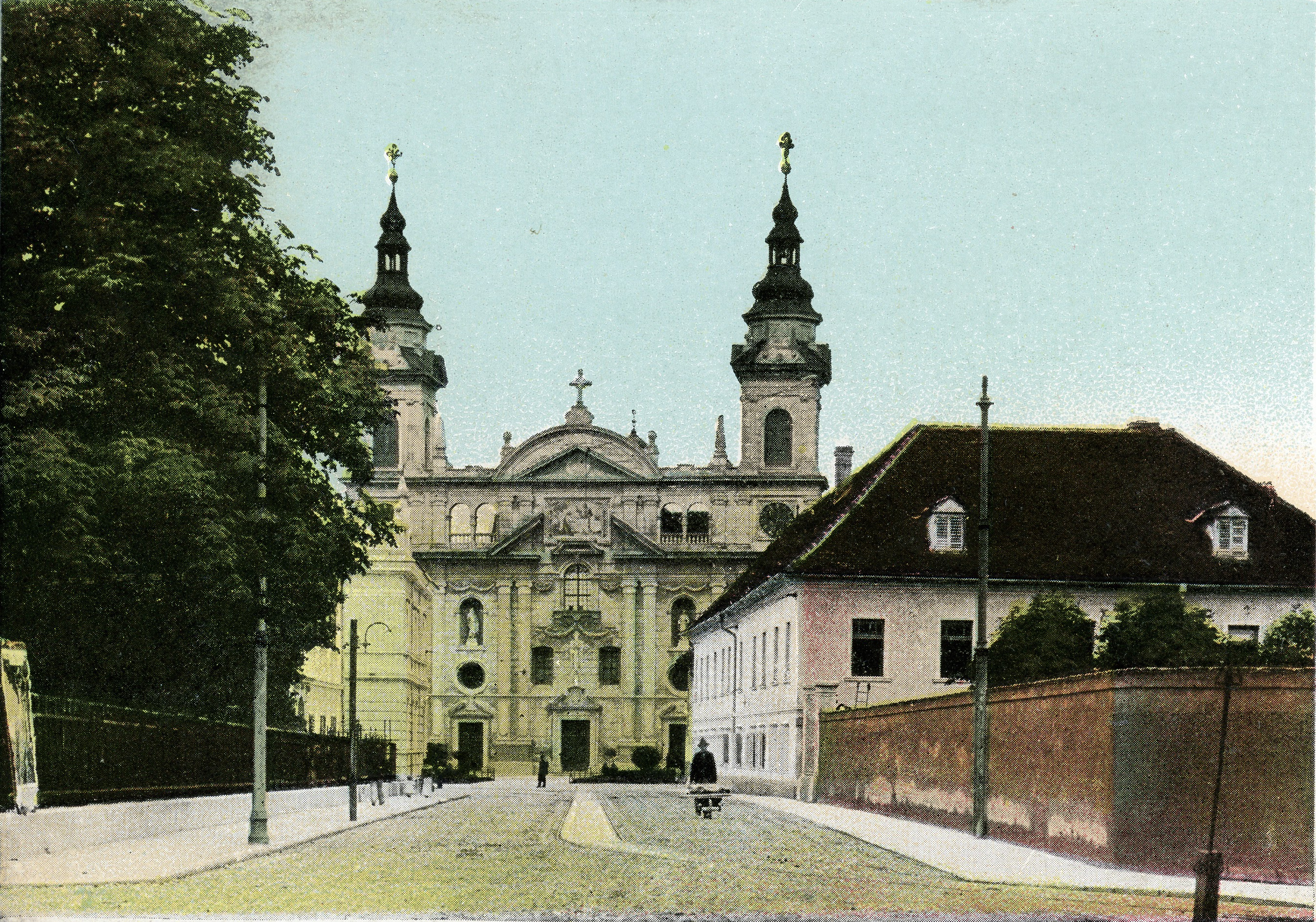 Postcard of St. Peter's Parish Church, Ljubljana.